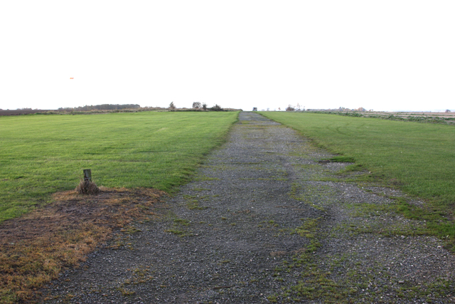 The Landing Strip, Watton, East Riding of Yorkshire, England.The strip also has a windsock. This is a remnant of the old Cranswick aerodrome.